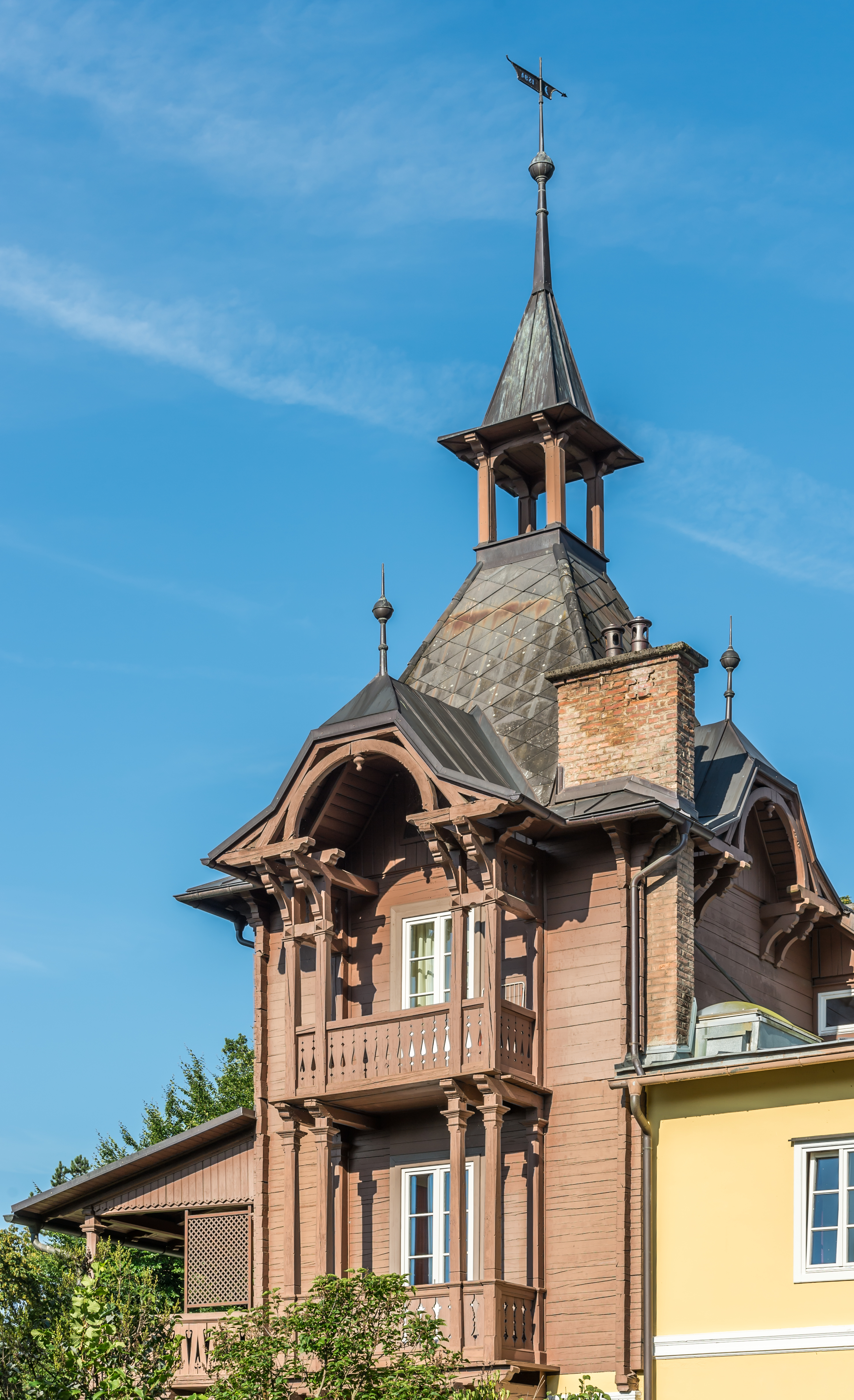 Northeastern view at «Lake Villa Elli», built in 1892, builder-owner Prof. Franz Kupelwieser, Main Street #119, municipality Poertschach on the Lake Woerth, district Klagenfurt Land, Carinthia, Austria, EU